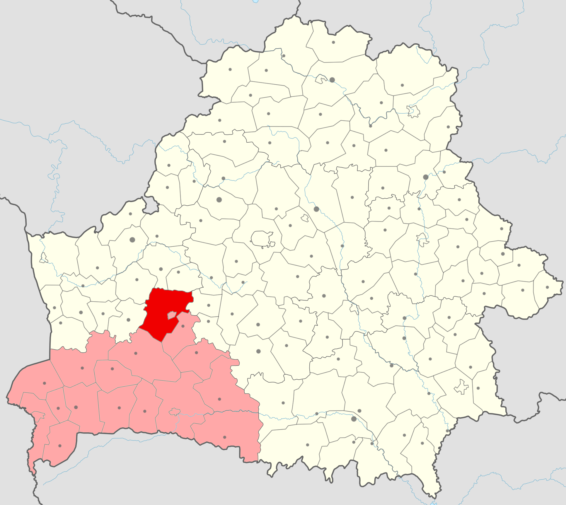 Location of Baranavicki rajon (red) in Bresckaja voblasć (light red) in Belarus.